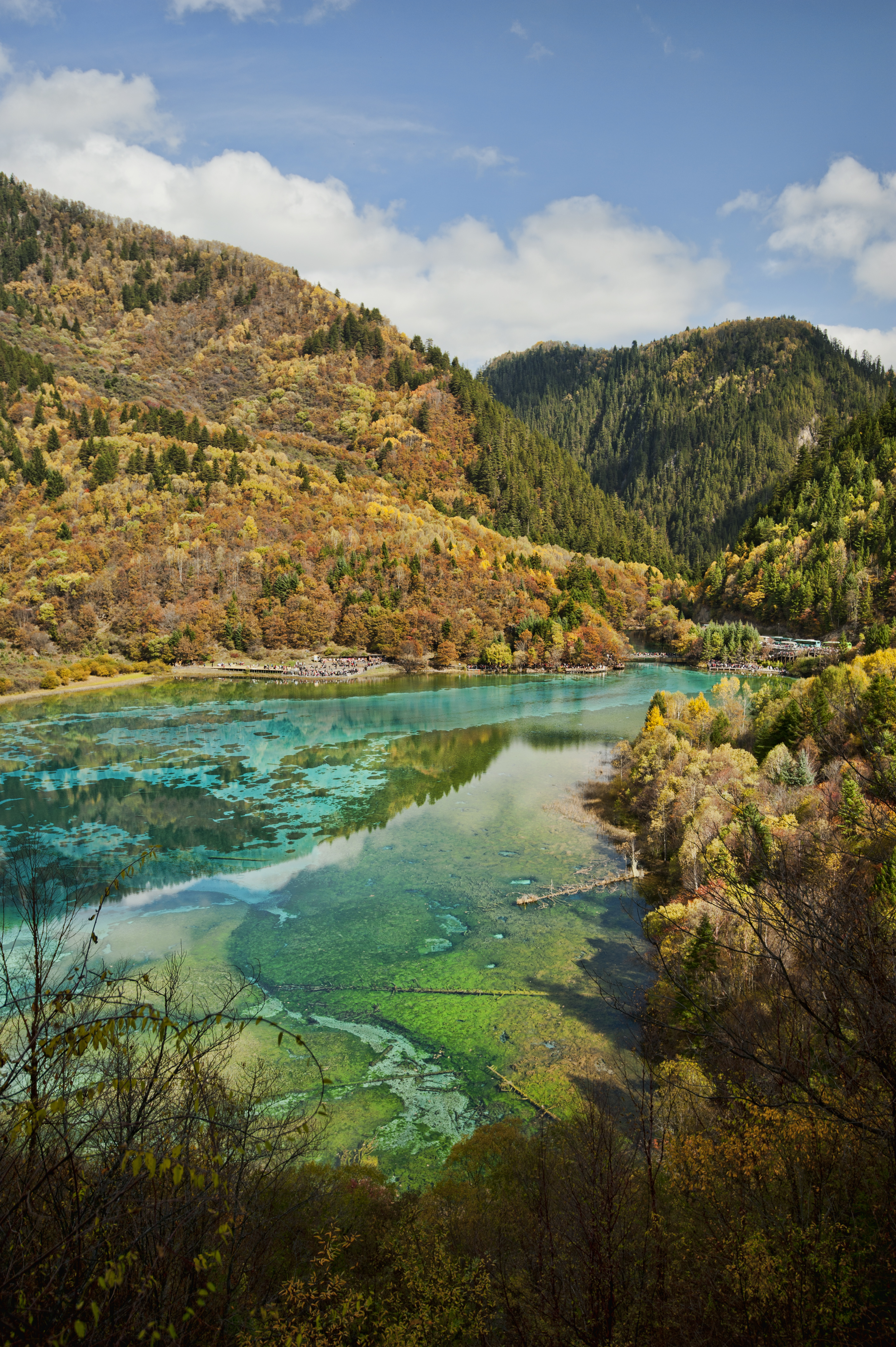 jiuzhaigou valley national park sichuan china autumn fall multi-coloured pool 2011 五花海, Wǔhuā Hǎi rize valley 日则沟